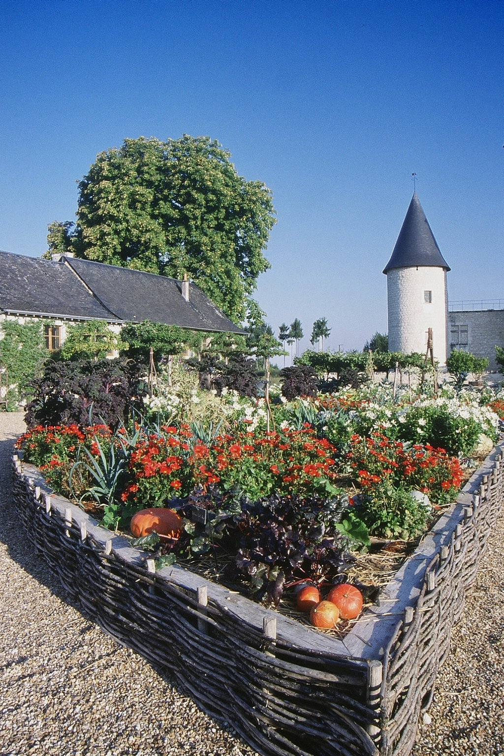 @chateaudurivau